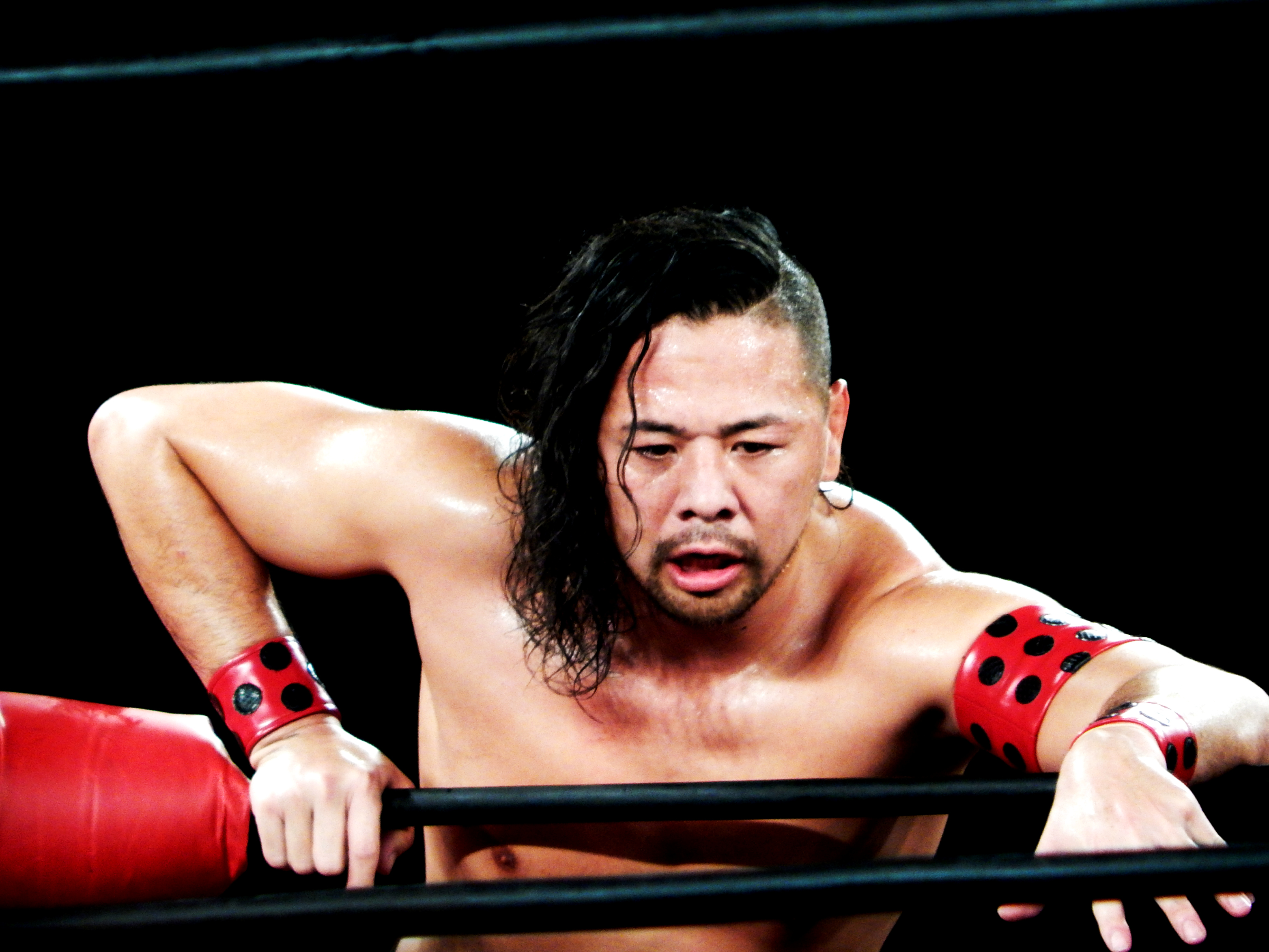 Shinsuke Nakamura, May 13 2015